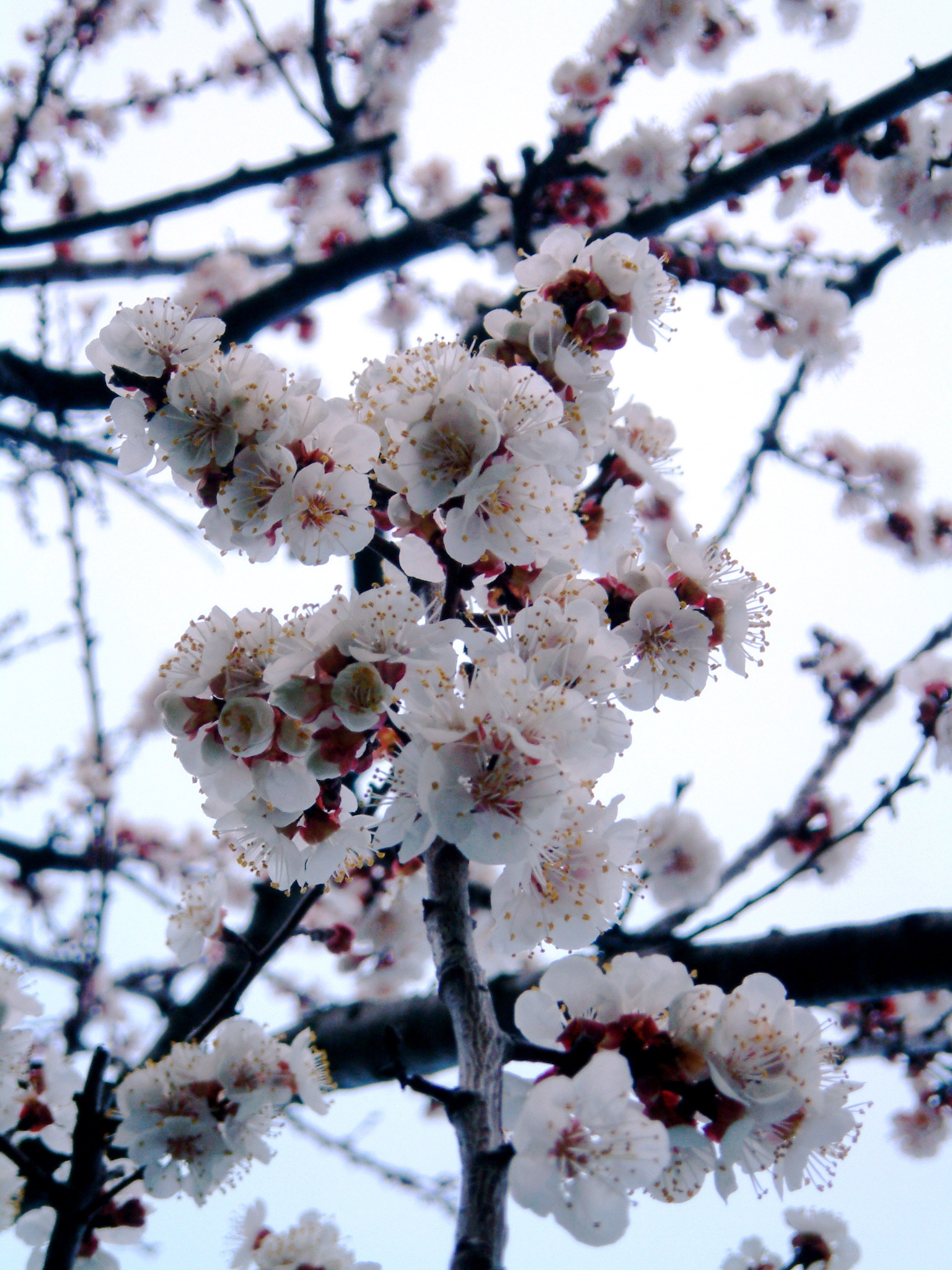 detail of apricot blossom in San Jose, California. Photo taken by and copyright John Pozniak on February 26, 2005, and released under the GFDL.